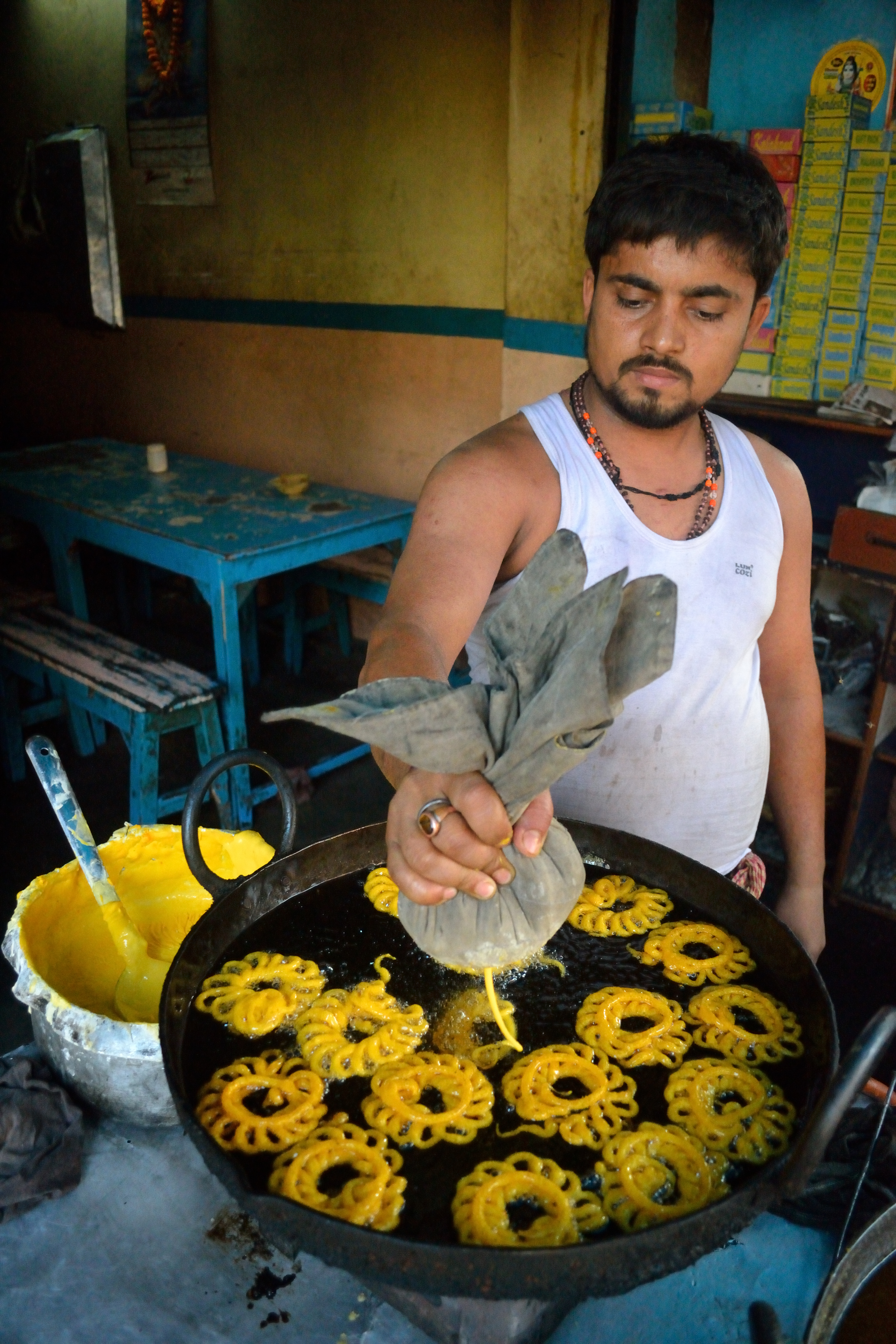 Photographed at Mall road, Dum Dum, Kolkata.